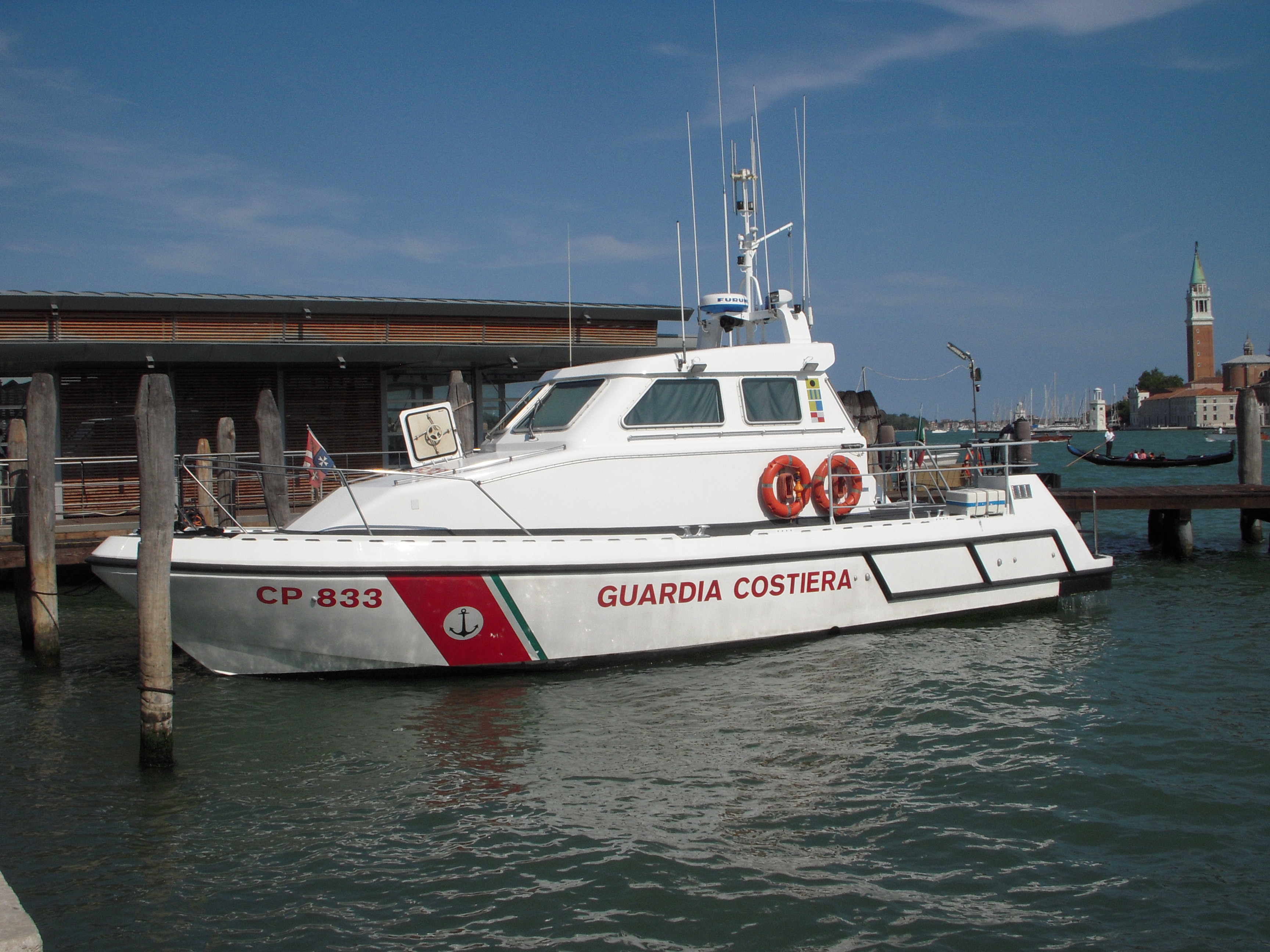 Boat from the Coast Guard in Canal Grande in Venice. August 12, 2012.